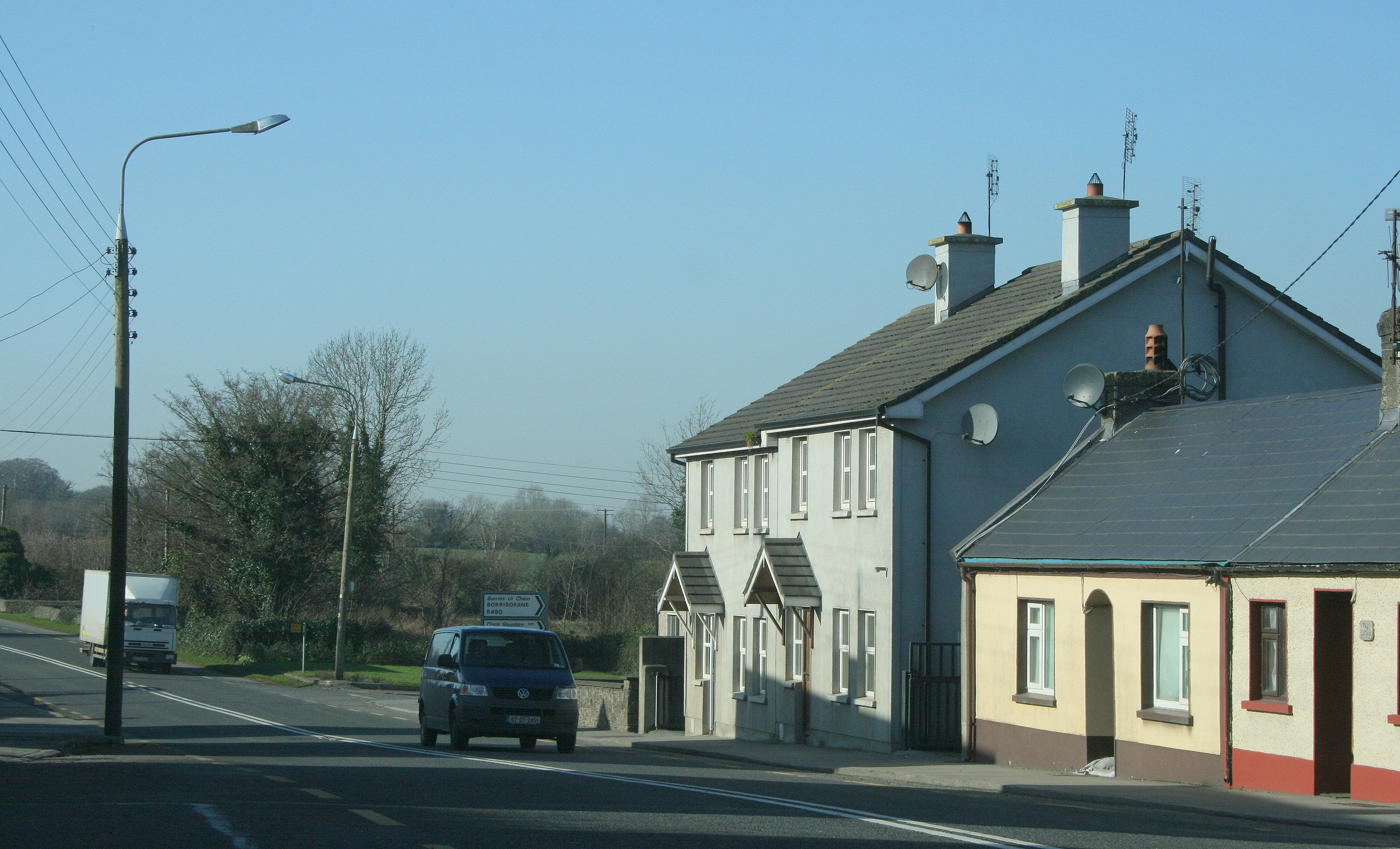 Moneygall on the N7; County Offaly, Ireland